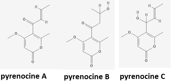 Pyrenocine A-C